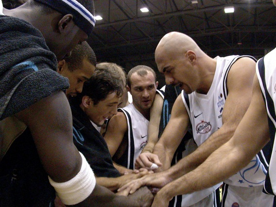 Description: Carpisa Napoli 2005-2006 Source: self-made Location: Naples, Italy Photographer: Massimo Finizio